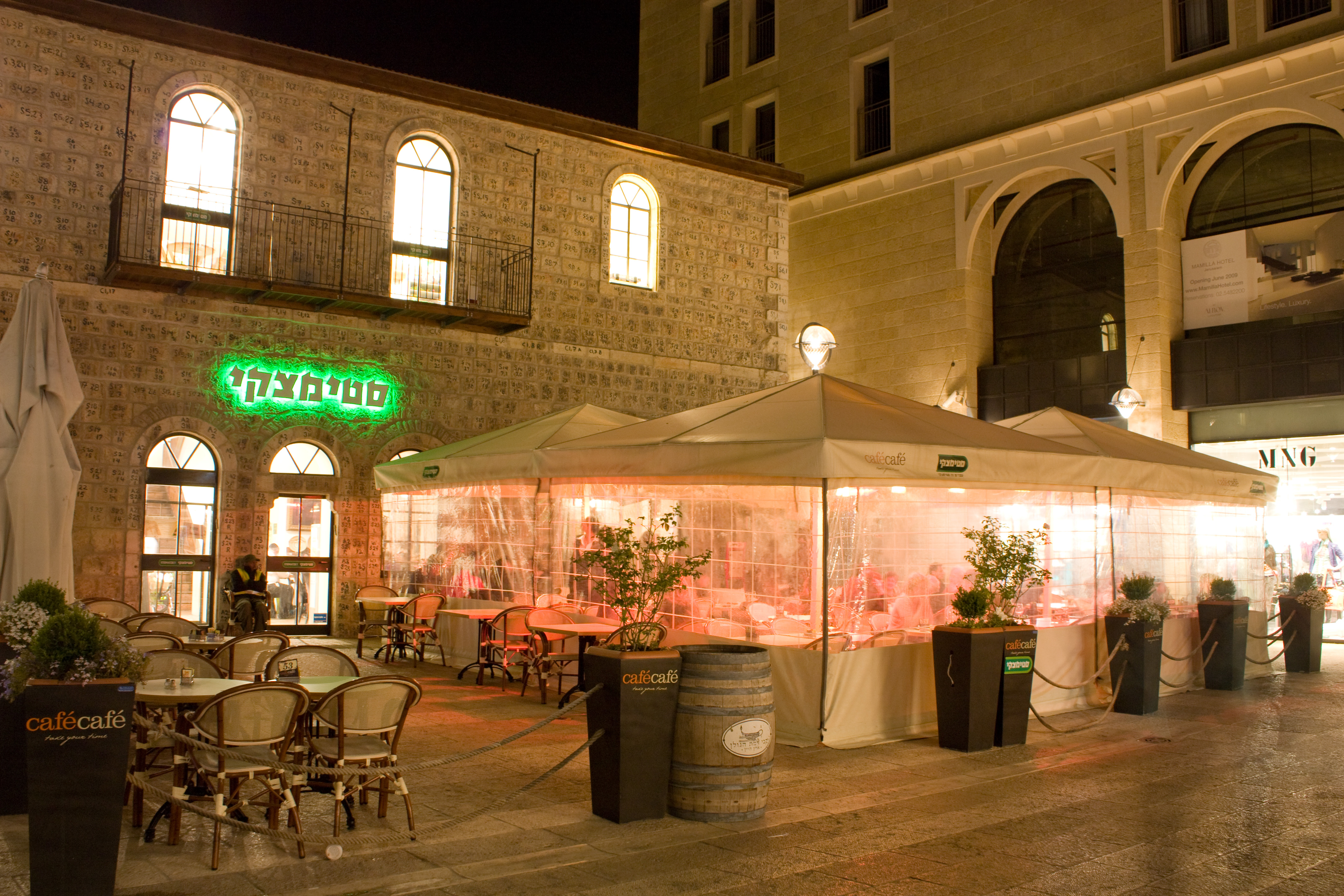 Jerusalem Mamilla Stern house - Steimatzky (סטימצקי) is Israel 's largest book store network